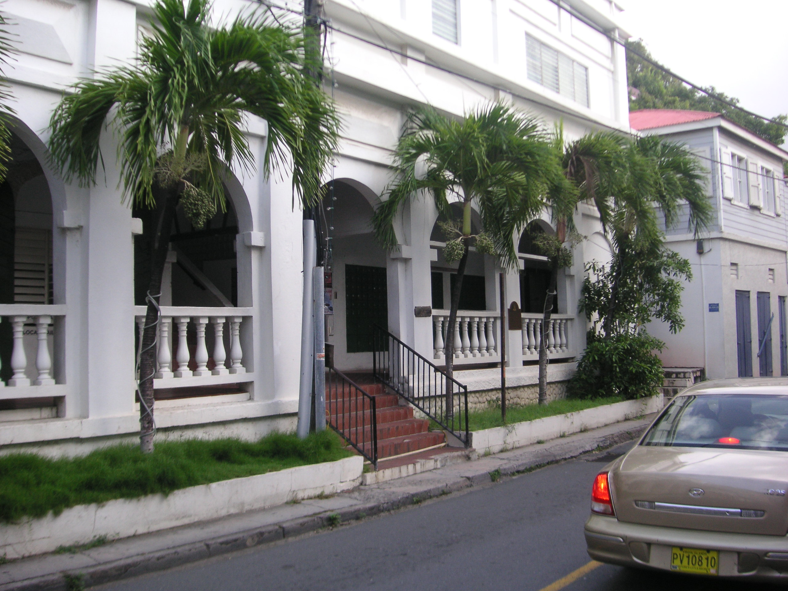 The Old Post Office, Main Street, Road Town, Tortola, British Virgin Islands